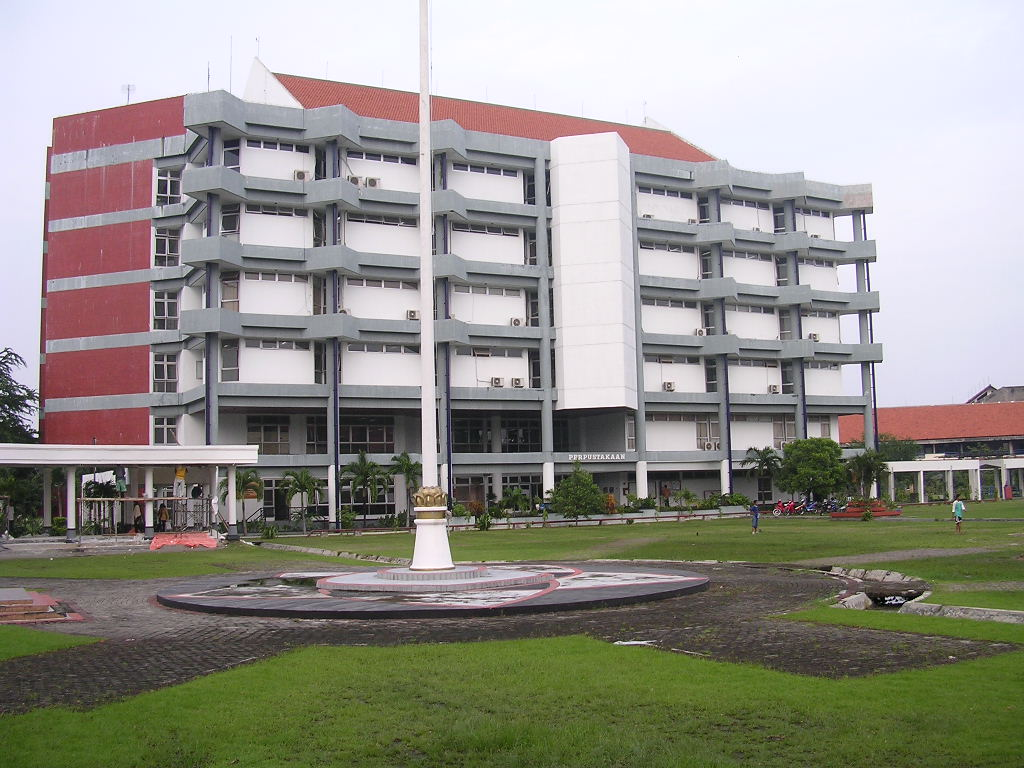 ITS Surabaya main library building. This picture is taken by me.